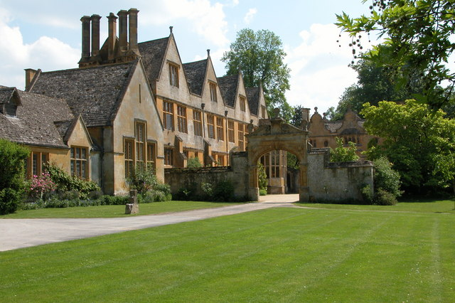 Picture of Stanway House, Gloucestershire, England